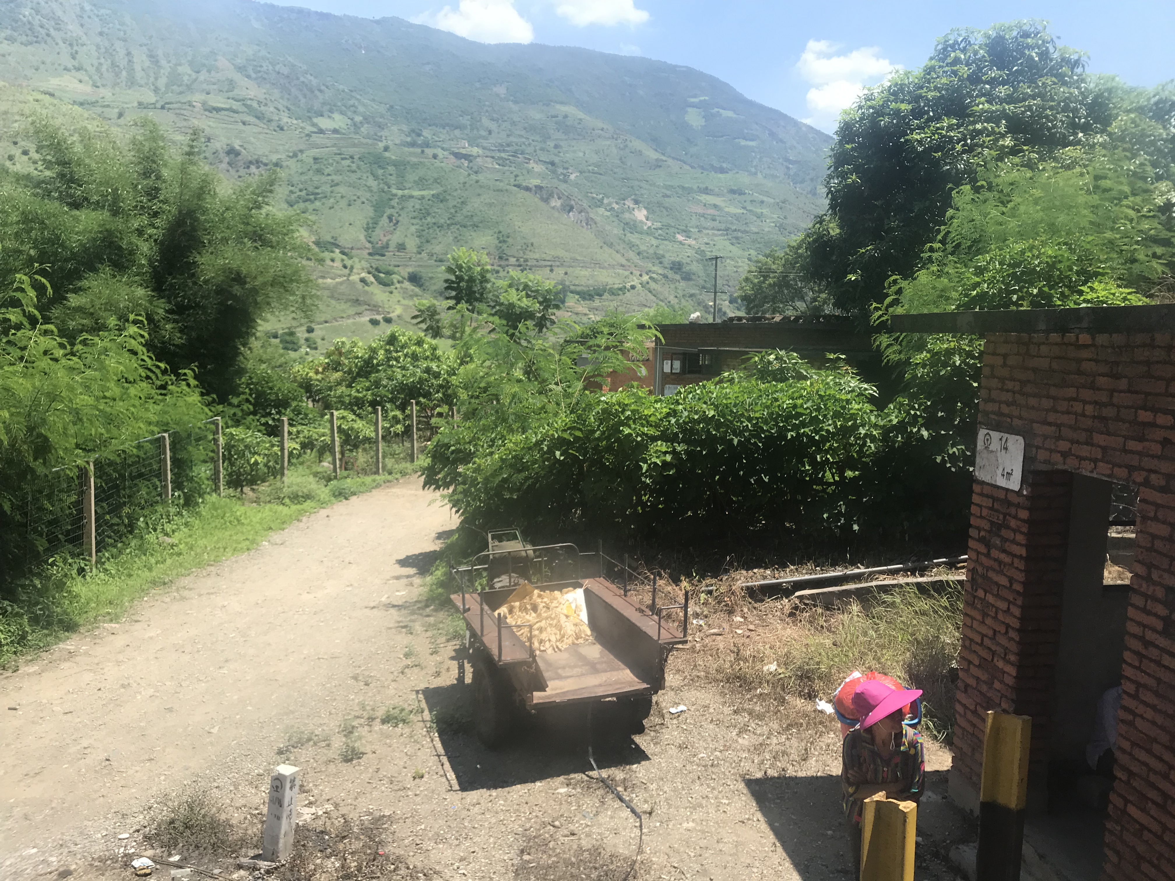 201908 Shanggeda Halt of Chengdu-Kunming Railway